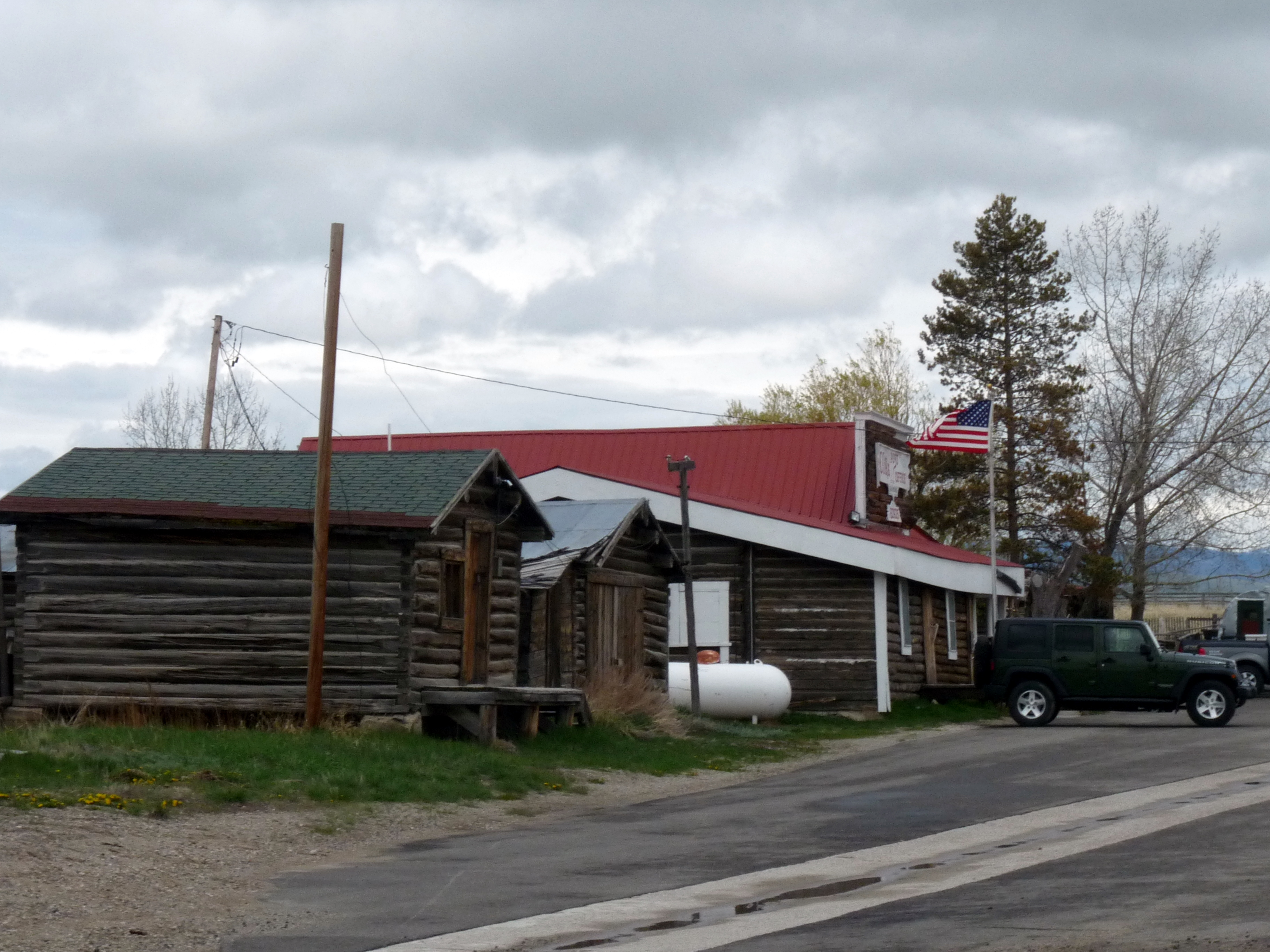 Downtown Cora, Wyoming